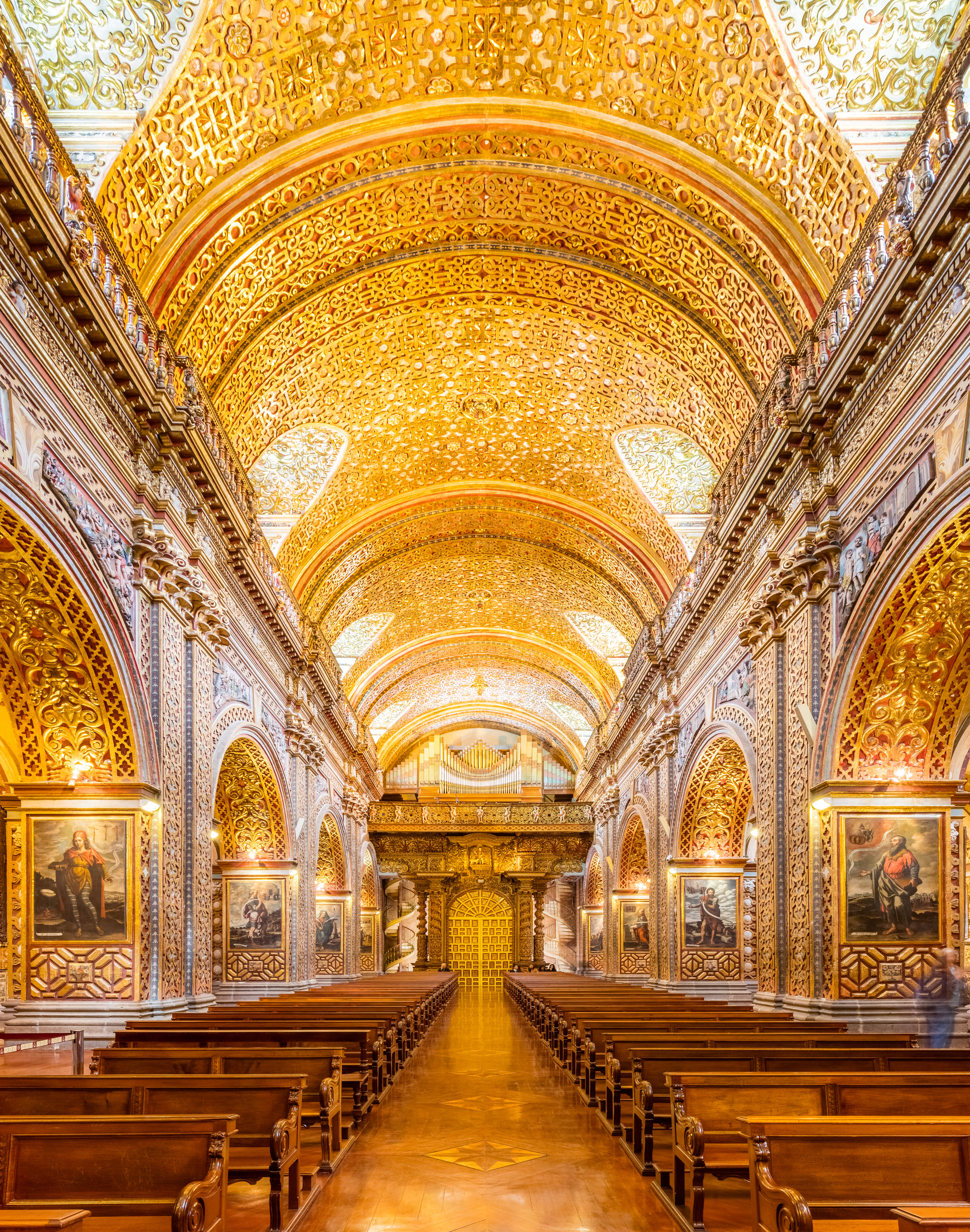 Church of the Society of Jesus, Quito, Ecuador